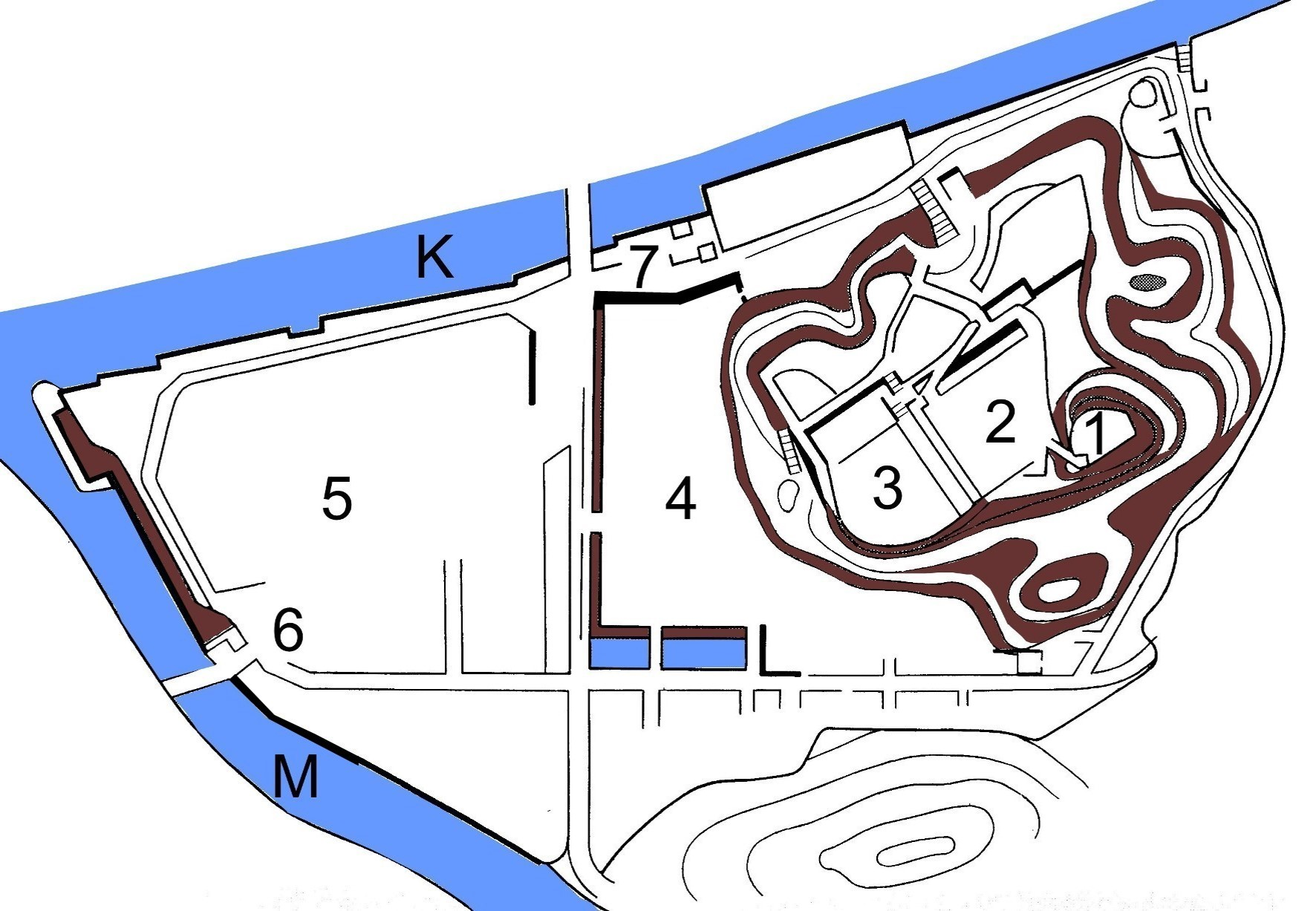 Laout of Hitoyoshi Castle